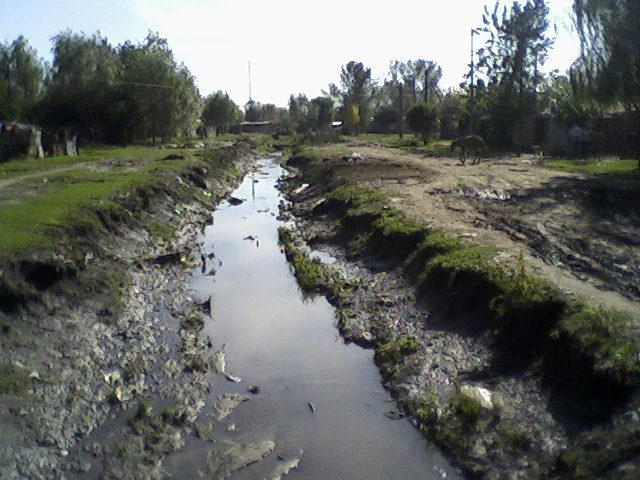 Arroyo Torres or Torres Creek. This is a highly contaminated water course that runs across Parque San Martín and drains in the Reconquista River.